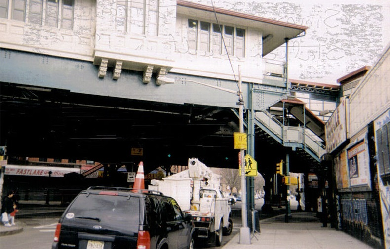 The Simpson Street (IRT White Plains Road) elevated station was built in 1904 and opened on November 26, 1904. It is located at the Junction of Westchester Ave., between Simpson St. and Southern Blvd. in the Bronx, New York. It was listed in the National Register of Historic Places on September 17, 2004. Line station house as viewed from street-level. Object location40° 49′ 27″ N, 73° 53′ 37″ W